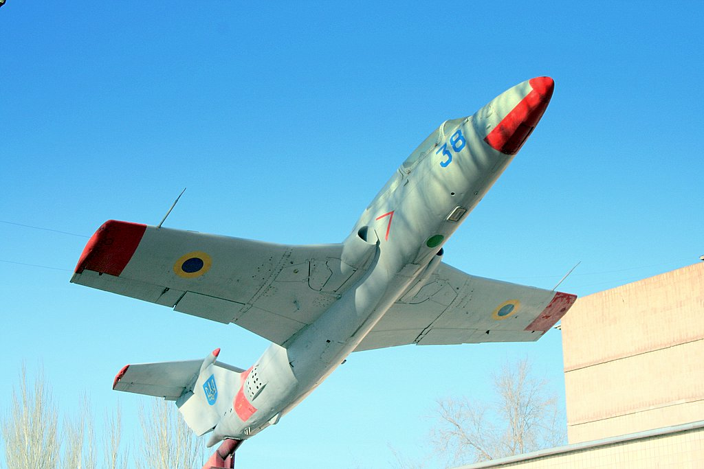 Aero L-29 Delfin A non-flying Ukrainian Aero L-29 Delfin displayed in a take-off position.